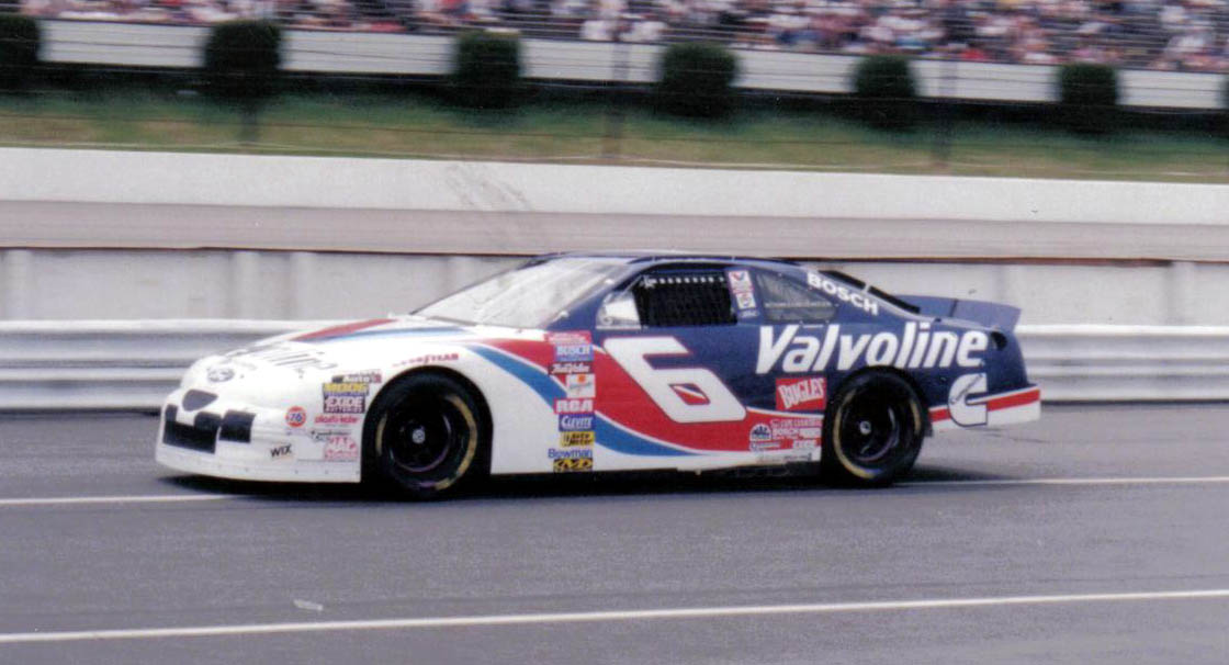 NASCAR driver Mark Martin racecar at Pocono in 1997.